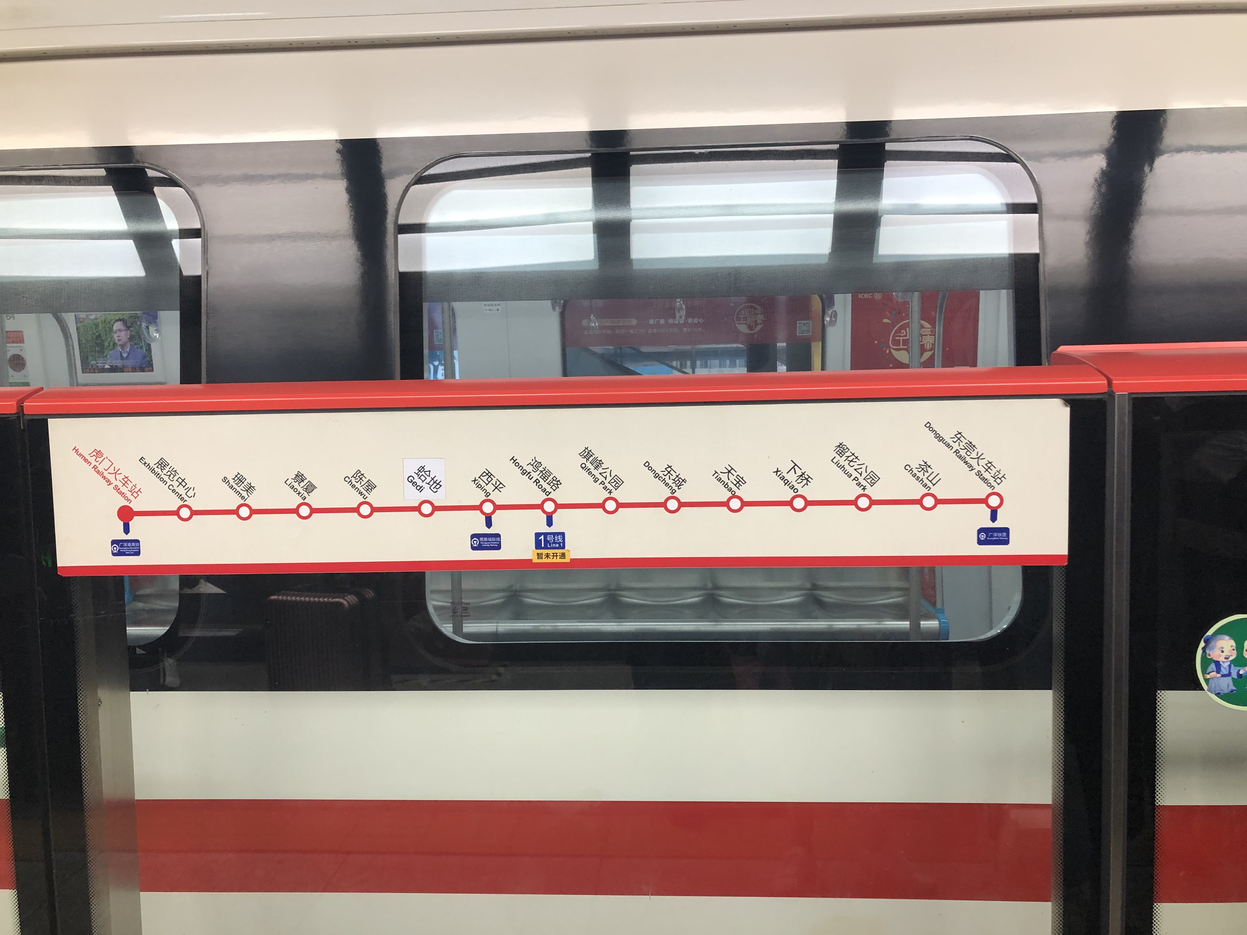 Dongguan Rail Transit Humen Station